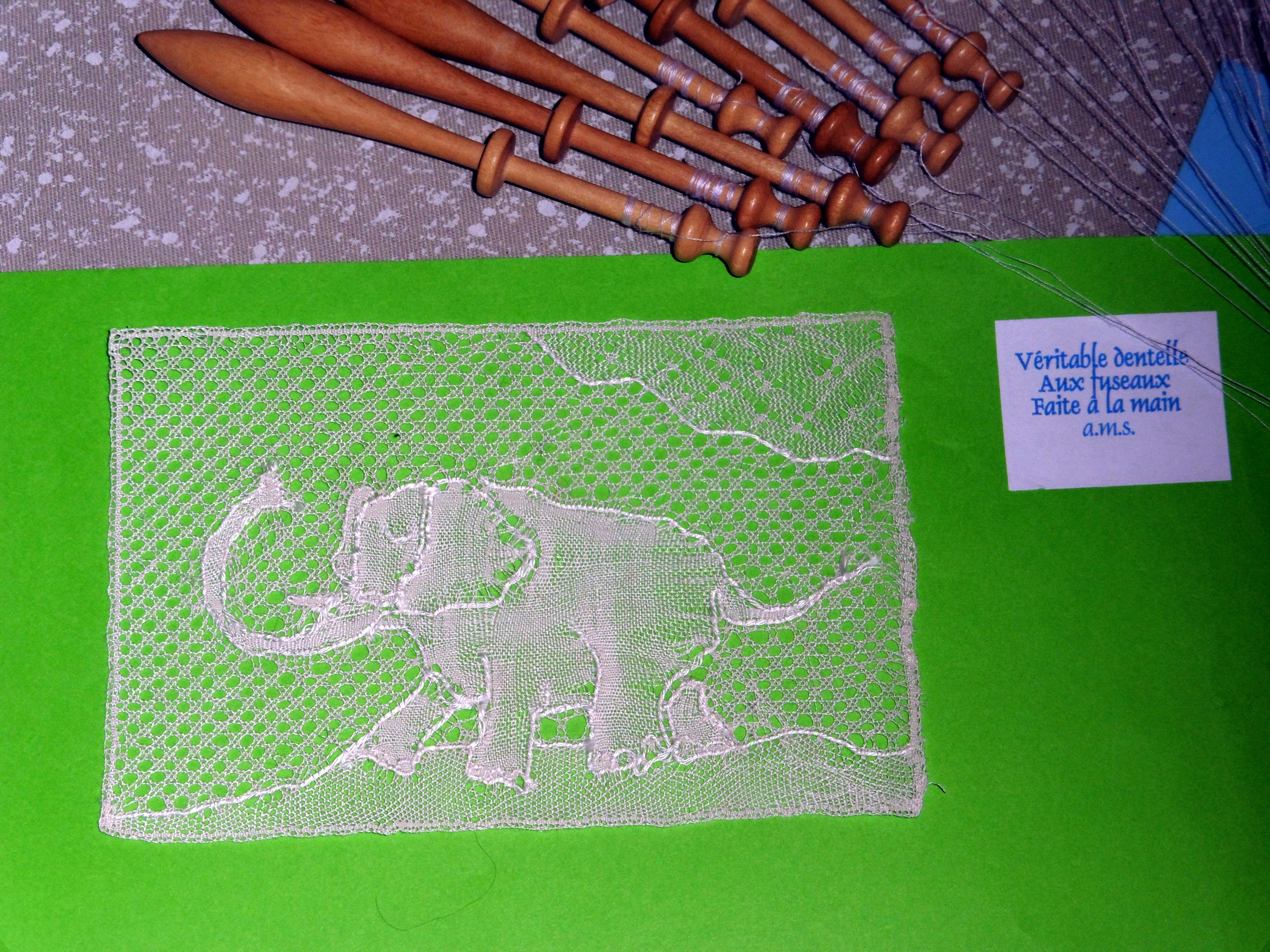 Gimp thread sample in lace